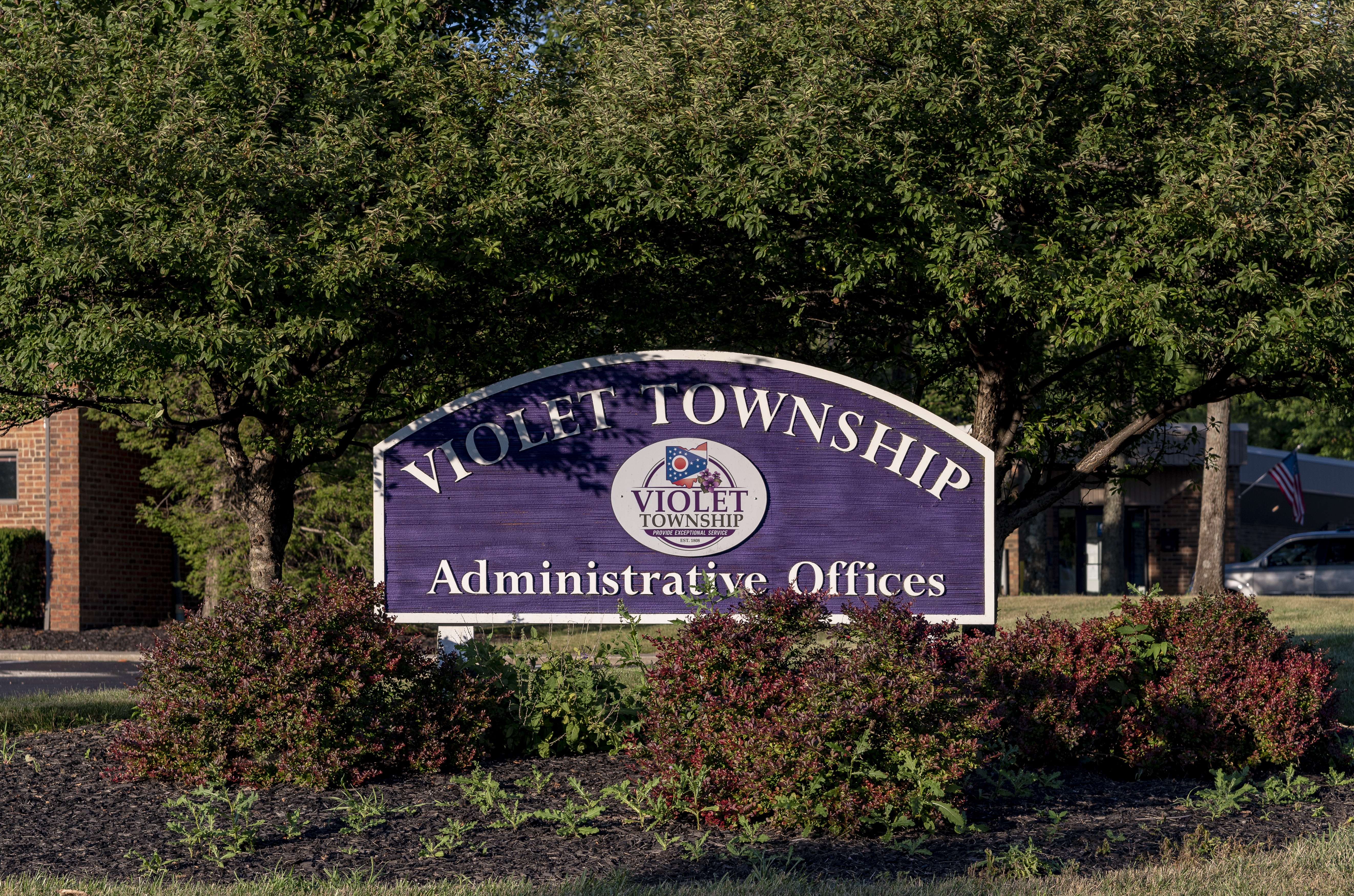 Violet Township Administrative Offices sign in Fairfield County, Ohio. Photo taken looking northeast just before sunset July.